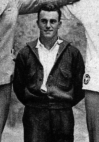 Sport, Swimming, 1924 Olympic medalists Arne Borg, Sweden and Johnny Weismuller, U,S,A, (right) flank the diminutive diver Peter Desjardins, U,S,A, pic: 1926